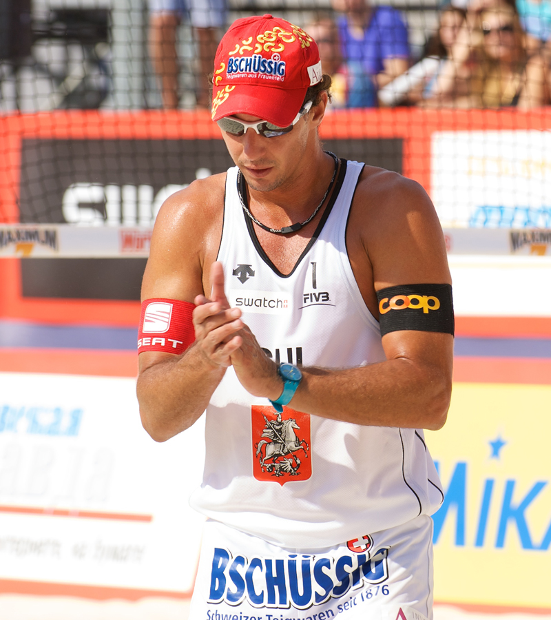 Grand Slam Moscow 2011